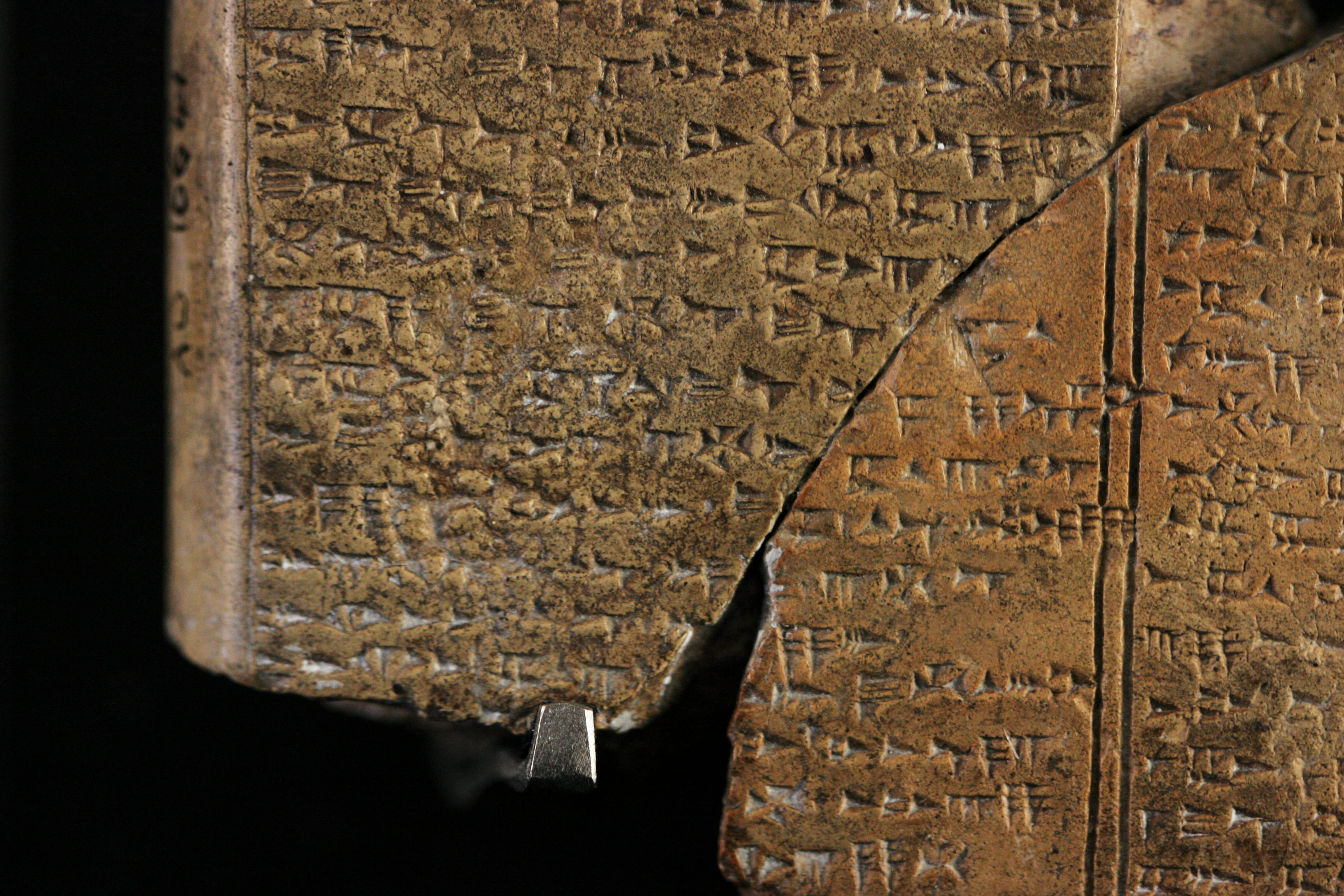 Artist Unknown artistDescription Ugaritic language, Cuneiform script Baal Epic. Ball and death. [1] 14th century BC, Display 12Collection Louvre Museum (Inventory)Native nameMusée du LouvreParent institutionÉtablissement public du musée du Louvre LocationParisCoordinates48° 51′ 37.42″ N, 2° 20′ 15.36″ E Established1793 Web page control : Q19675 VIAF: 257711507 ISNI: 0000 0001 2260 177X ULAN: 500125189 LCCN: n80020283 NLA: 35912436 WorldCat institution QS:P195,Q19675Current location Sully Rez-de-chaussée Levant : Syrie côtière, Ougarit et Byblos Salle BAccession number AO 16641, AO 16642Credit line Found by C. Schaeffer in 1930-31Source/Photographer Rama Ugaritic language, Cuneiform script Baal Epic. Ball and death. [1] 14th century BC, Display 12